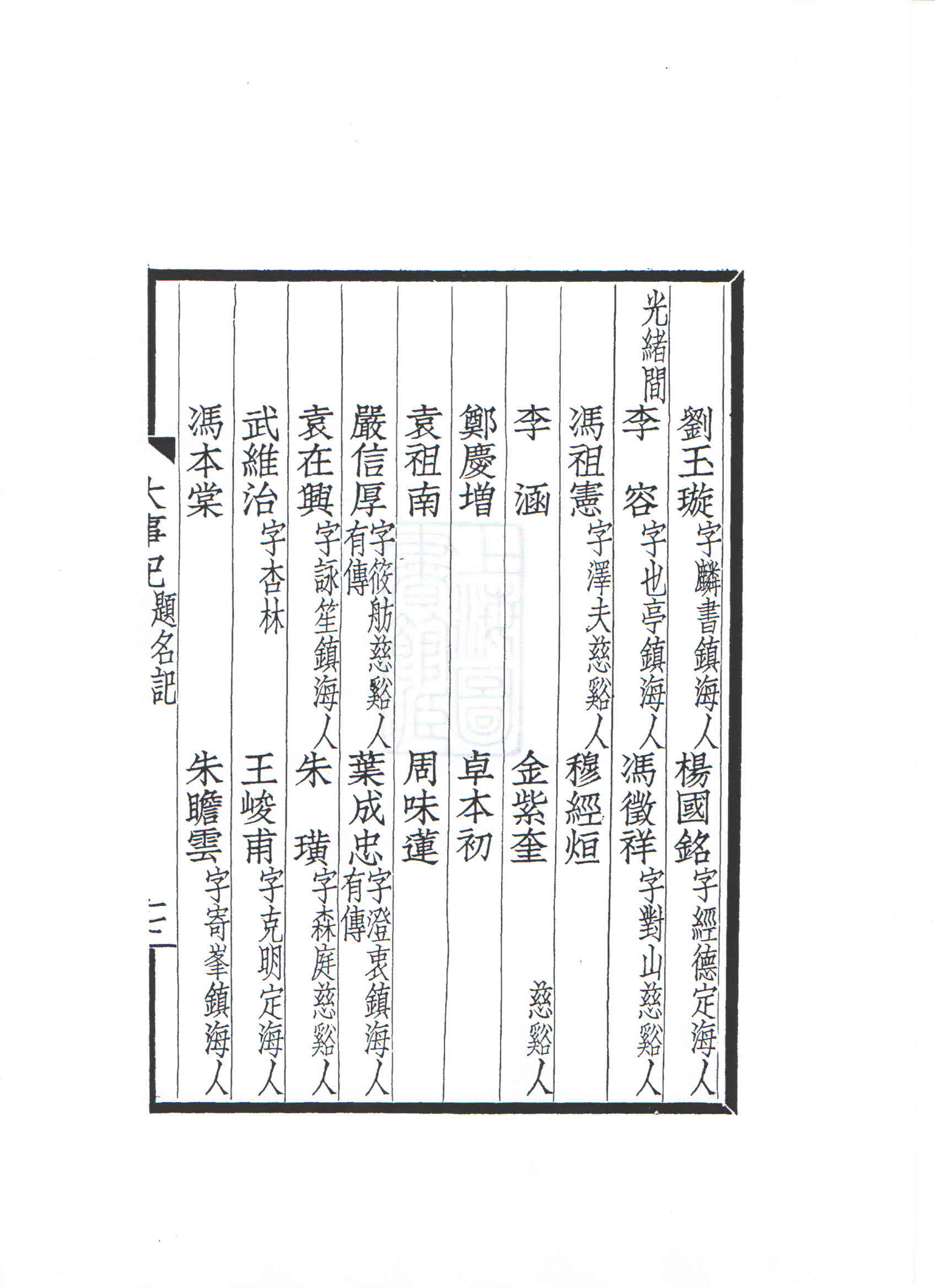 List of Si-Ming Guild Directors (page 3)